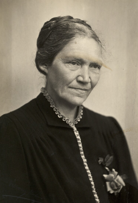 Portrait of Maren Sørensen, Danish nurse and first ordained female priest